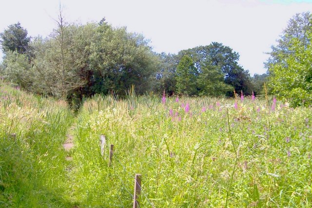 South Cheshire Way, Crewe Green Crewe Green. South Cheshire Way,crossing marsh near Henbury Lee.